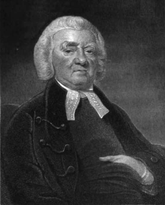 A painting of Samuel Parr, LLD (1747 - 1825). He is sitting, one hand in pocket, facing the artist.